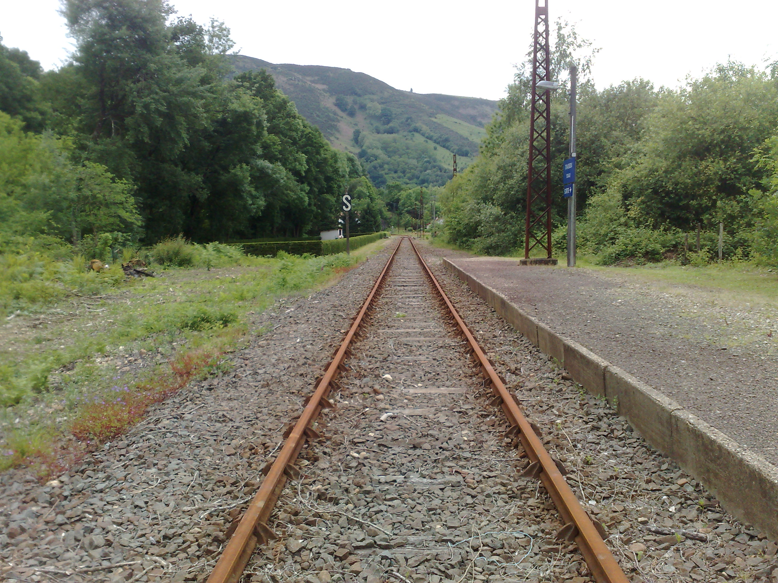 Itsasu train station towards Baiona, Lapurdi-Labourd, Basque Country.